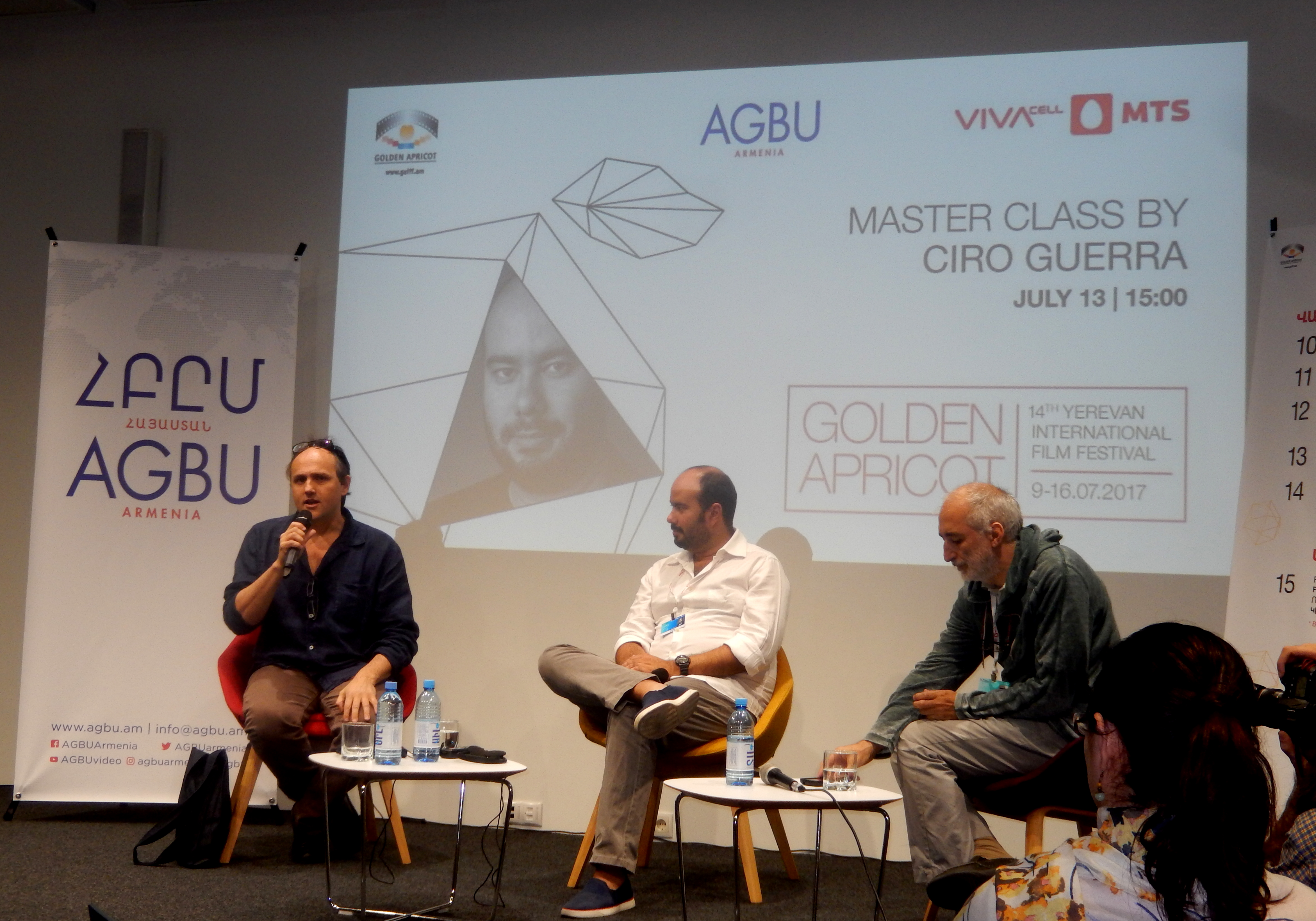 Master Class by Ciro Guerra in the framework of Golden Apricot film festival